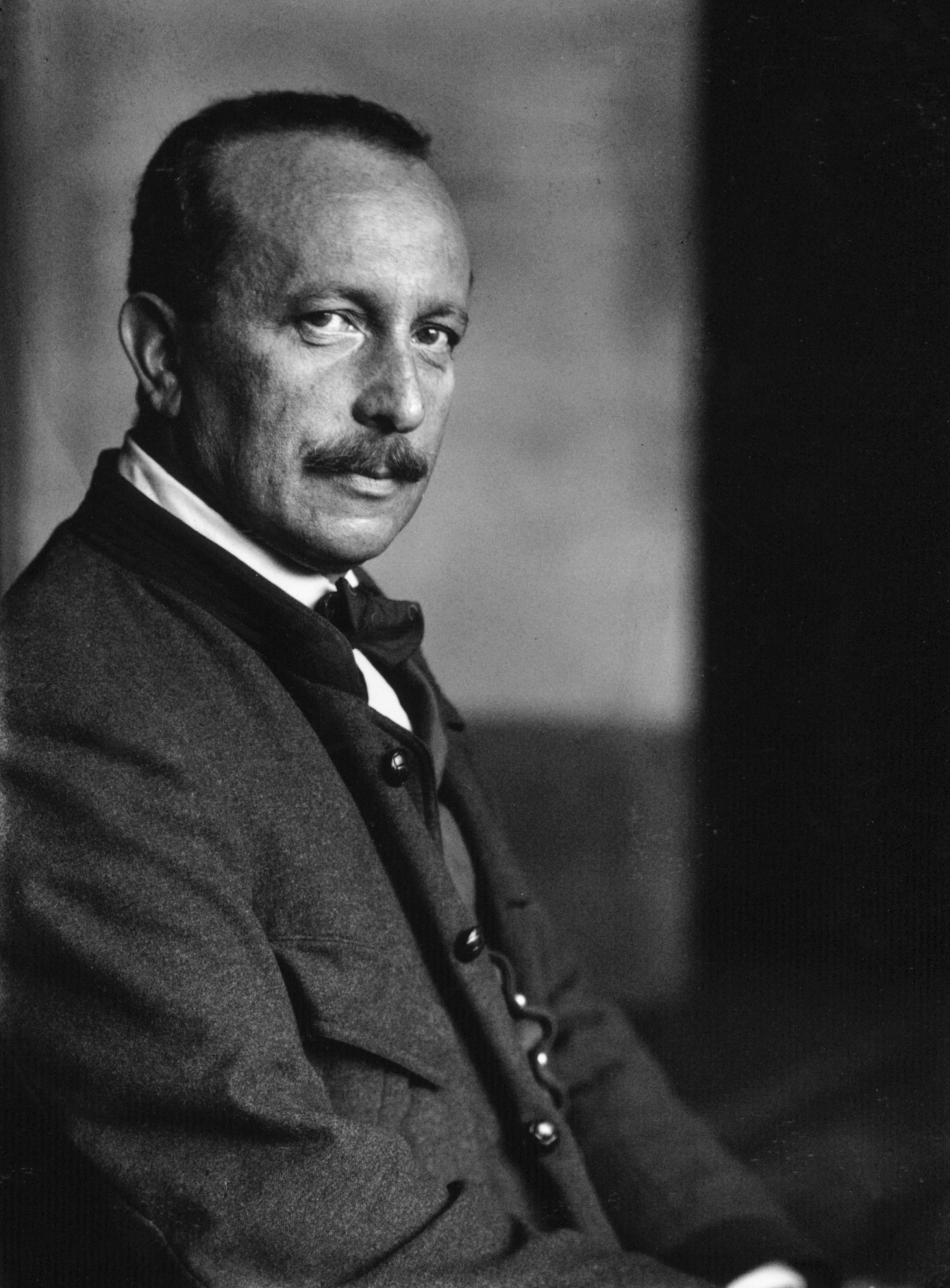 Author Felix Salten in Vienna, 1910 or later.